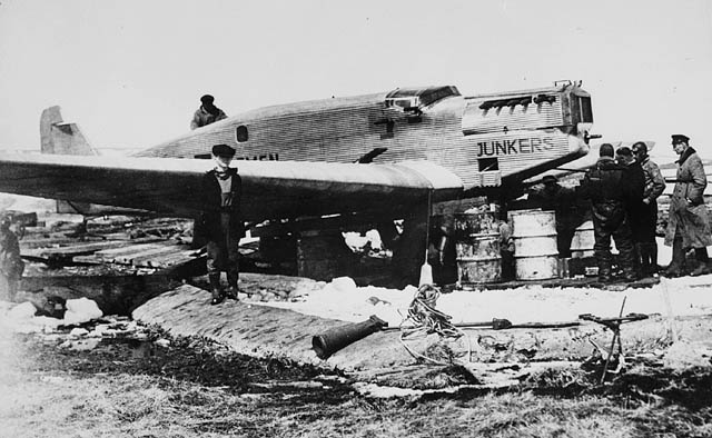 The Junkers W33 aircraft nicknamed Bremen, following its successful east-west trans-Atlantic flight. The group at right includes Romeo Vachon and Baron von Huenefeld